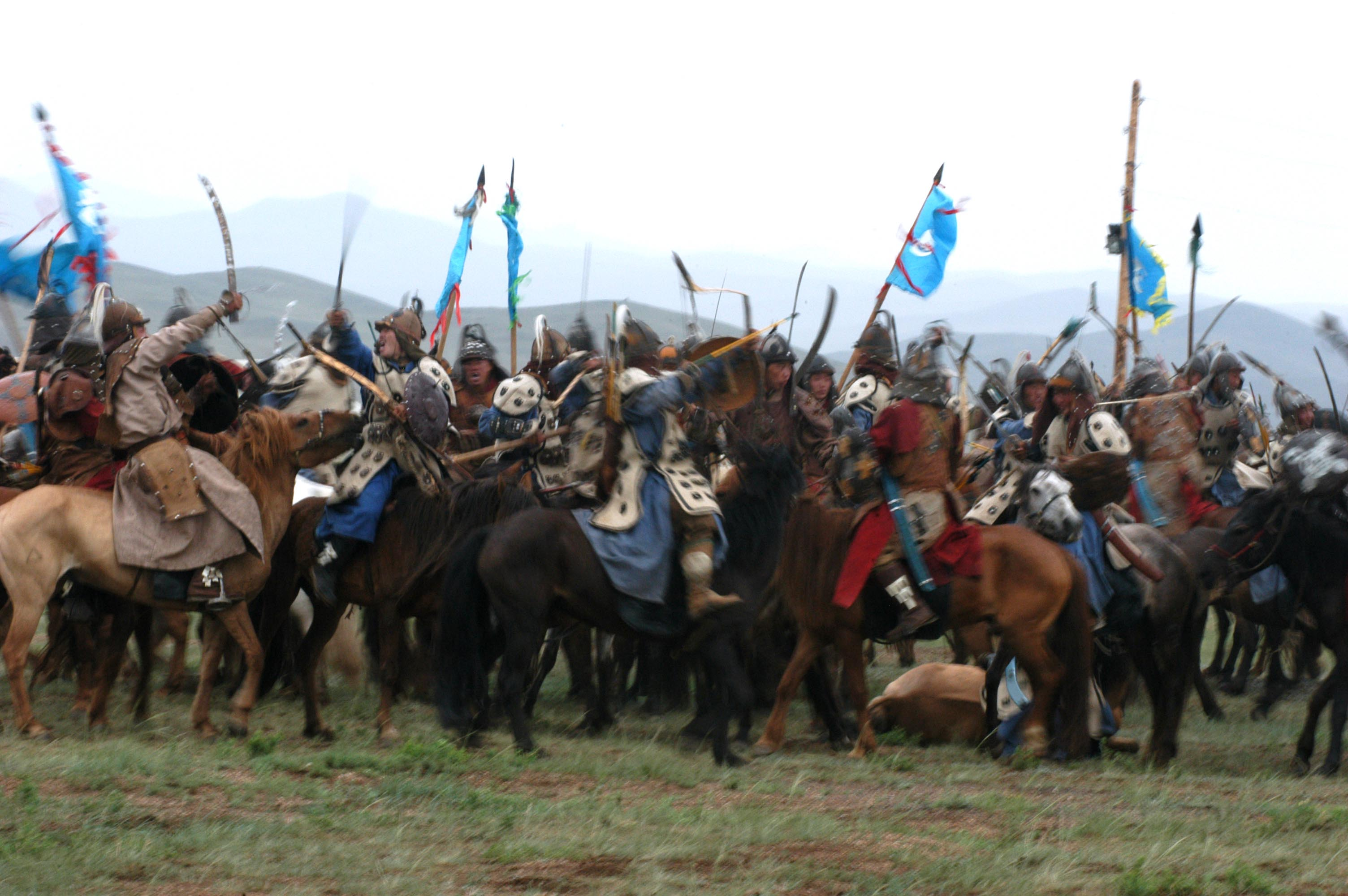 FIVE HILLS TRAINING CENTER, Mongolia (Aug. 1, 2007) â€“The Mongolian Armed Forces clash during a mock horse-mounted battle during the opening ceremony of Khaan Quest 07 here Aug. 1. This nomadic country is hosting the multinational peacekeeping exercise for the second year in a row. (Official U. S. Marine Corps photo by Sgt. G. S. Thomas)